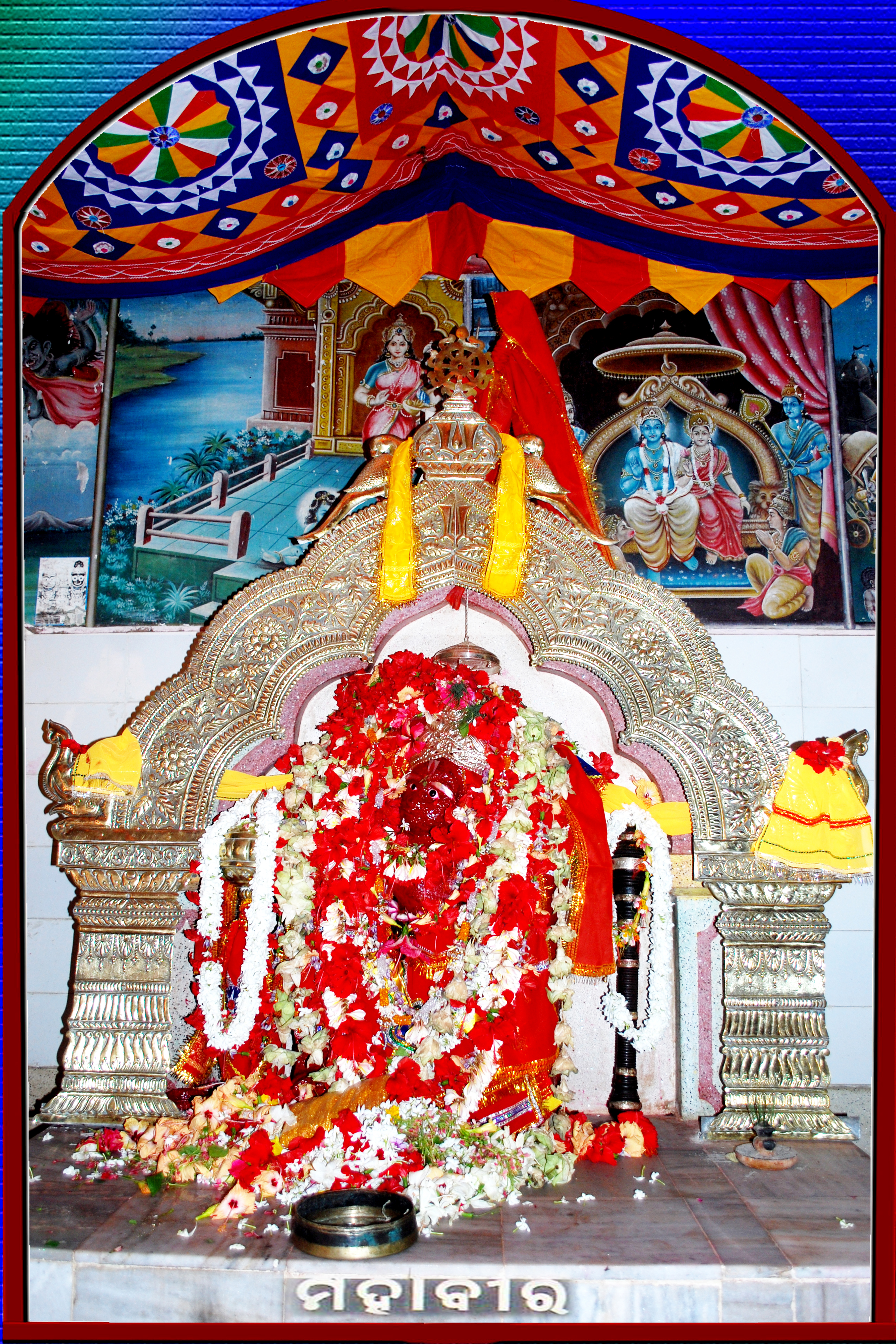 Lord Mahaveer (Hanuman) and prabhu raghunath inside the Mahaveer temple at Daspalla, Nayagarh